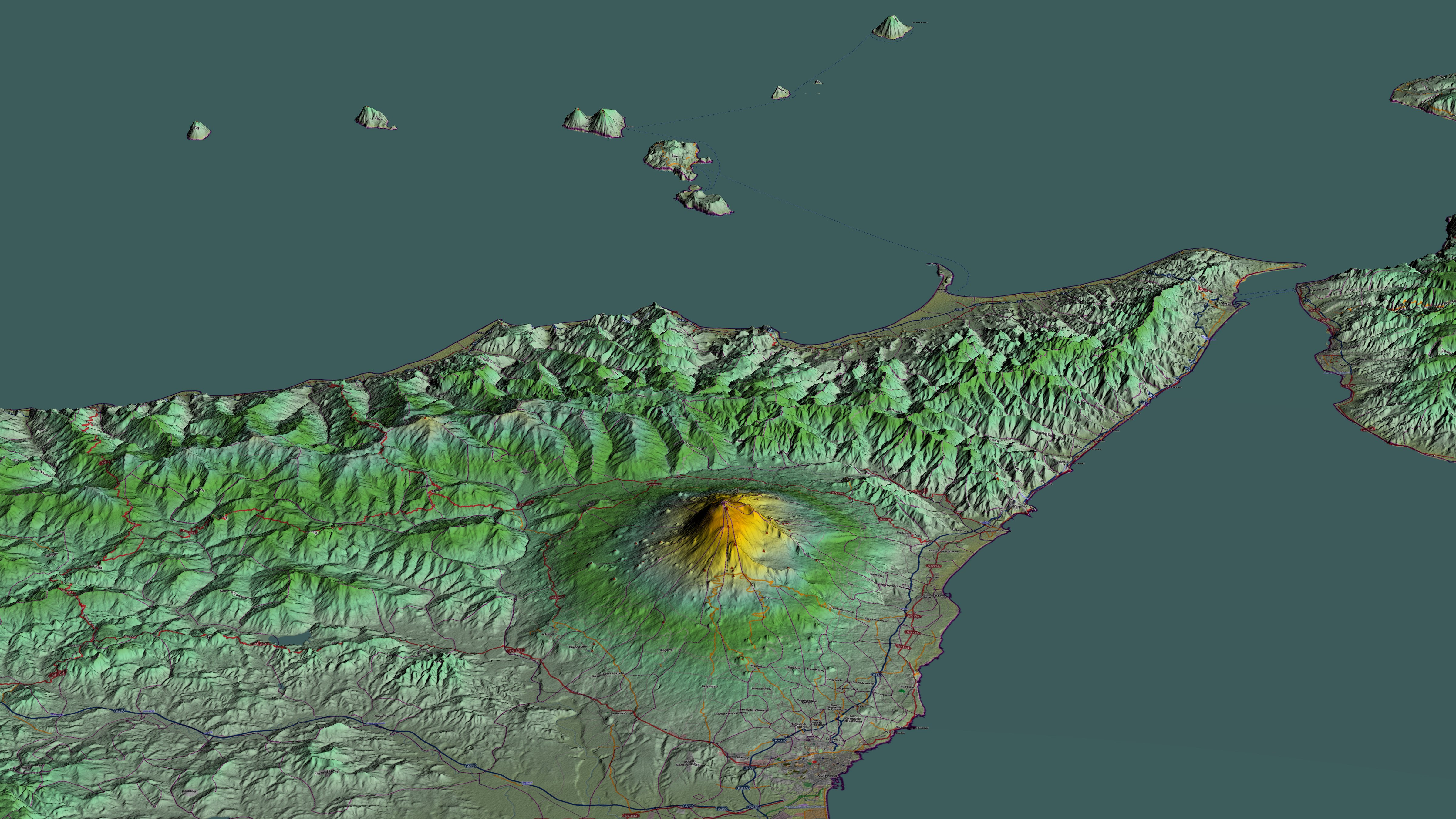 Mount Etna, Italy, computer image generated using TruFlite